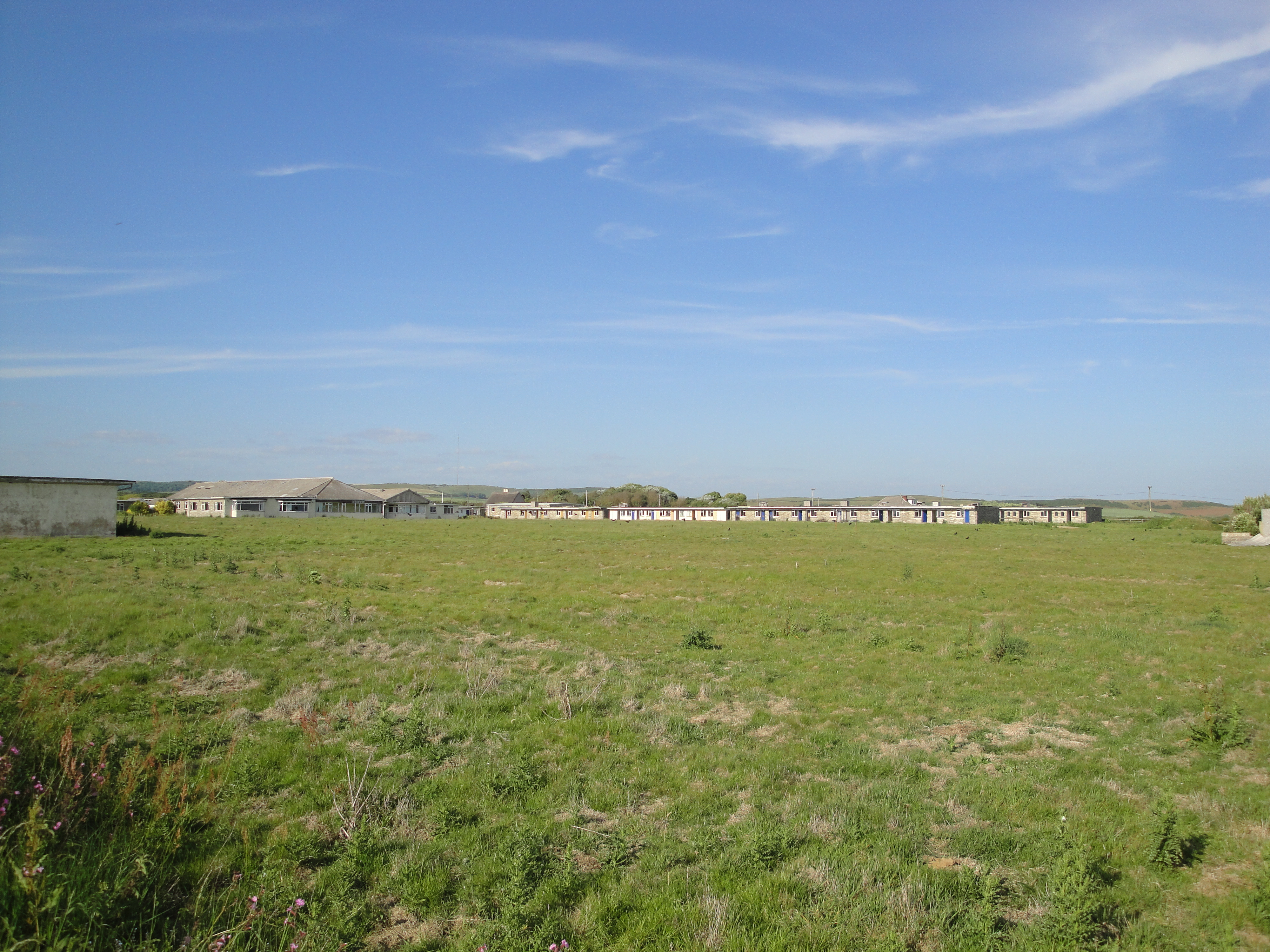 Atherfield Bay Holiday Centre, off the A3055 Military Road, Isle of Wight. In 2005 it was the setting for Channel 4's reality television series Wakey Wakey Campers.